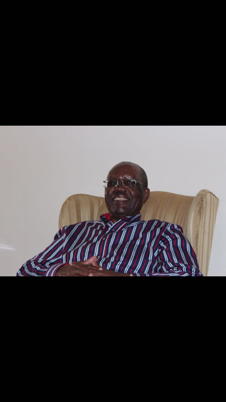 Hon. Wilson Ndolo Ayah Former Minster for Foreign Affairs Kenya.